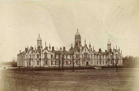 The north side of Old Trinity as seen in 1856.